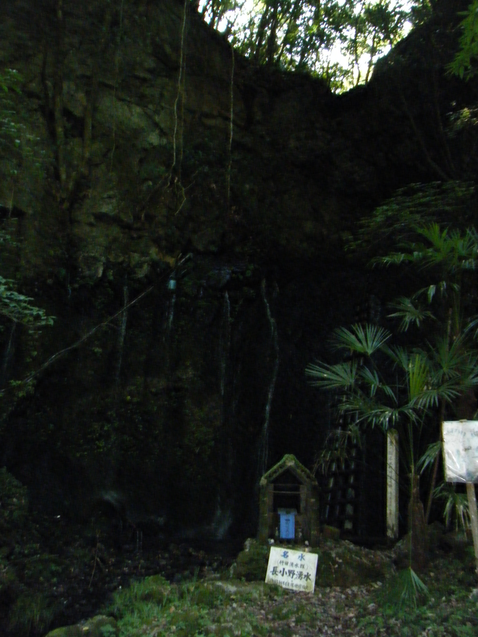 Taketayusuigun-Nagaonoyusui